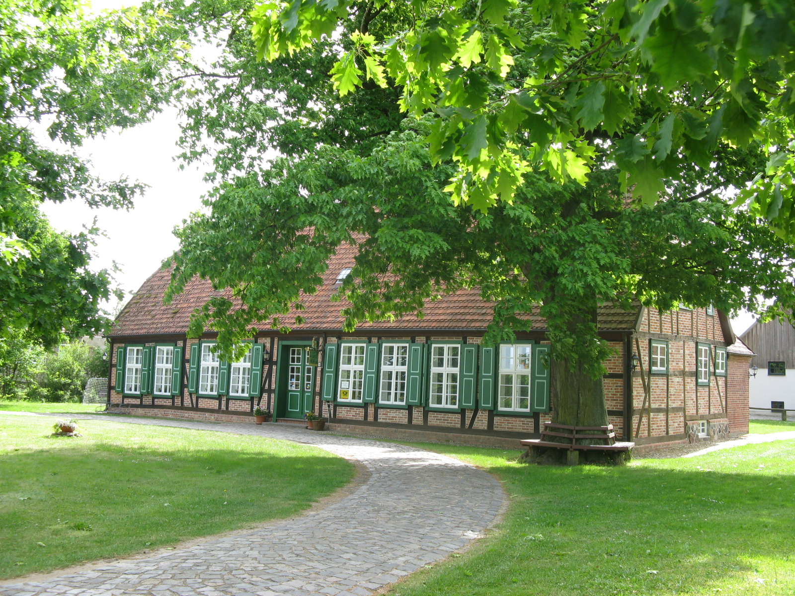 Timber framed house of the former forest department in Glaisin, Ludwigslust, Mecklenburg-Vorpommern, Germany